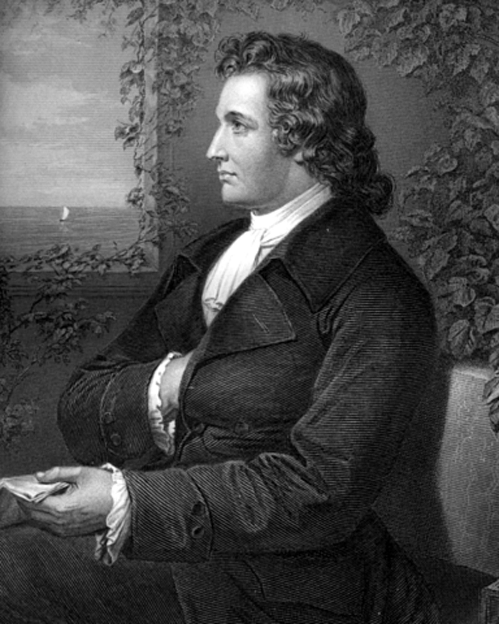 Johann Wolfgang v. Goethe